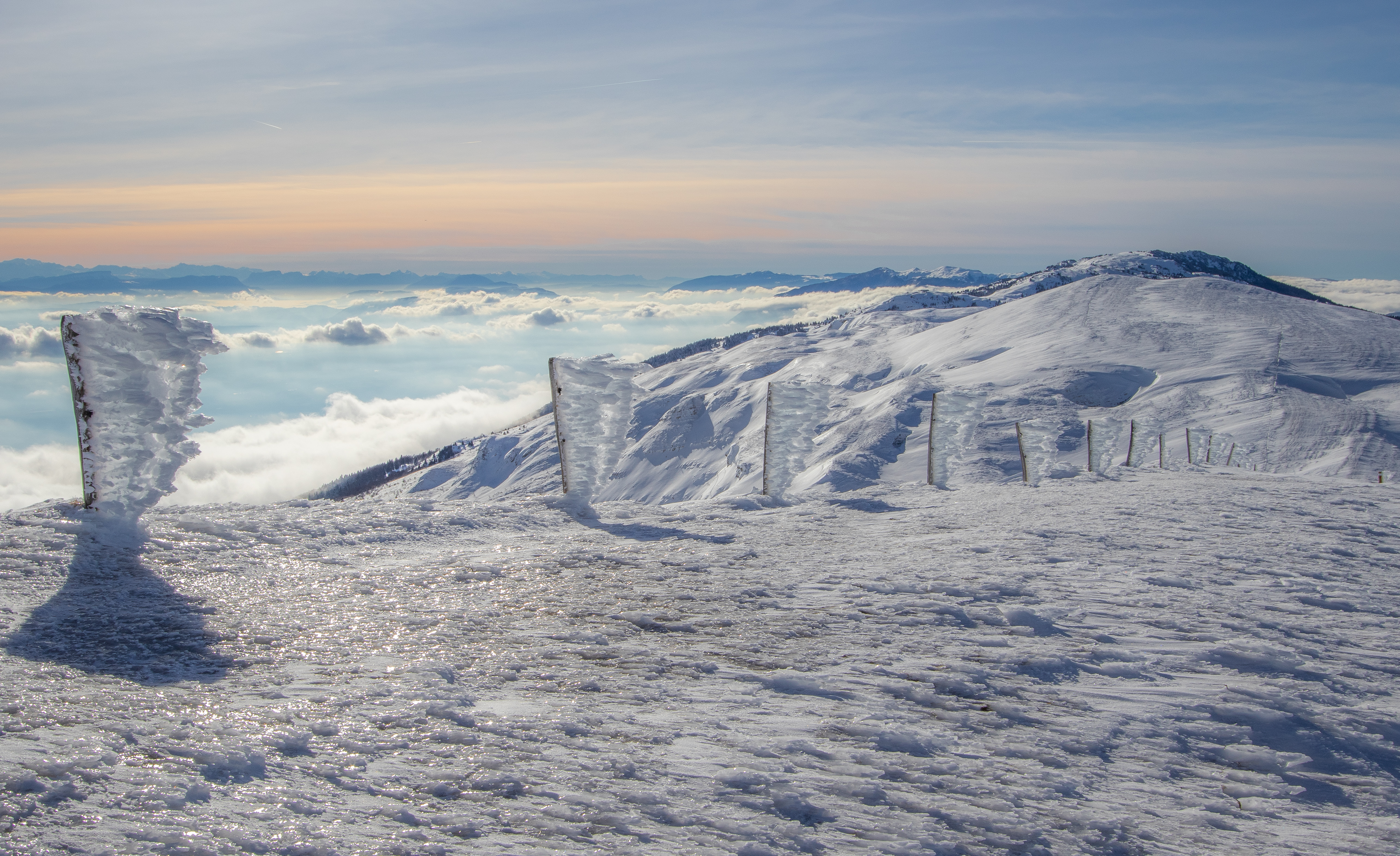 A day of strong wind and cold, near the summit of Colomby de Gex